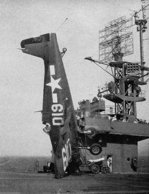 A Grumman F6F-5 Hellcat aboard the U.S. Navy escort carrier USS Takanis Bay (CVE-89) following a barrier crash, circa in 1945.